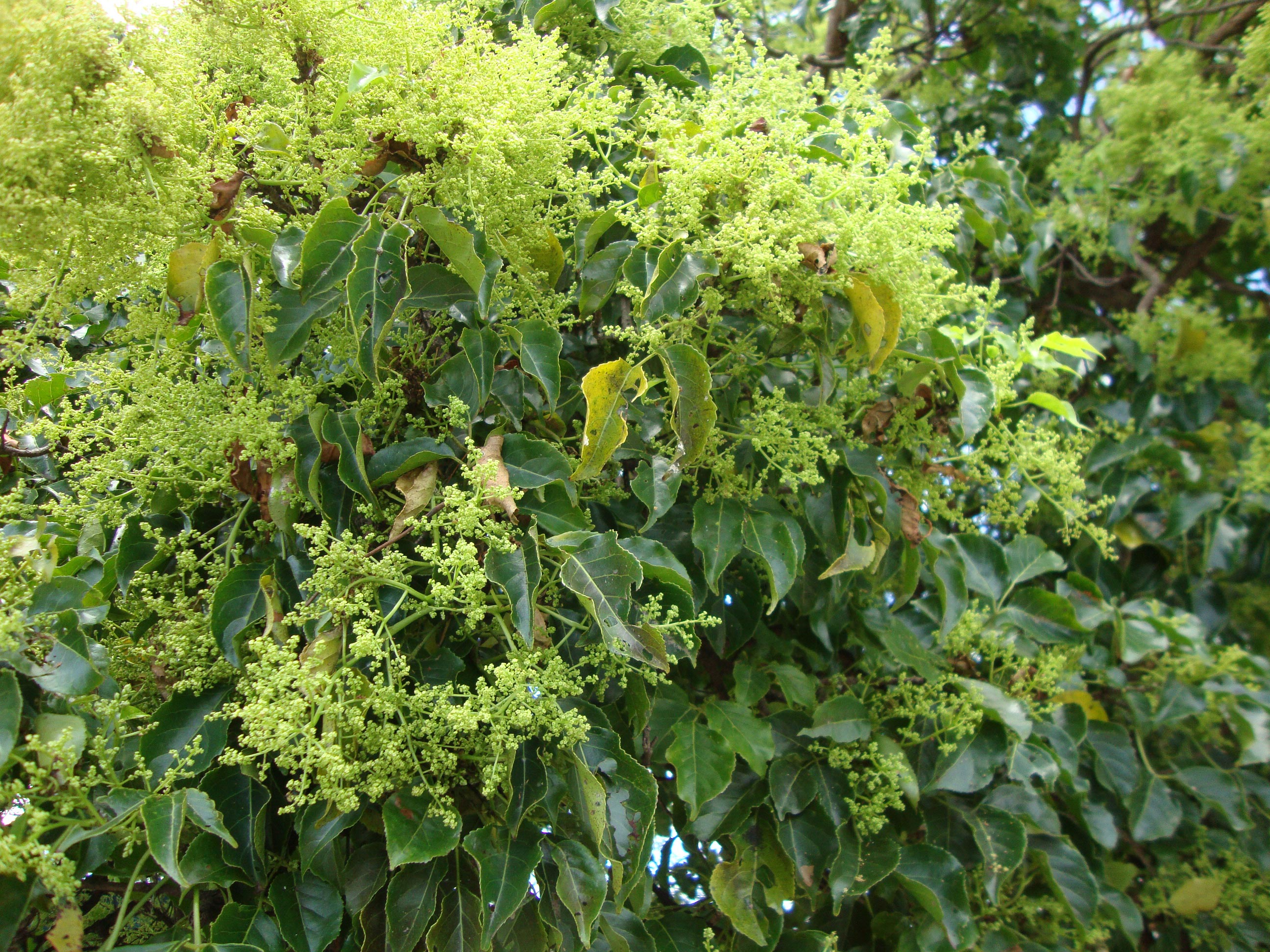 Bischofia javanica -full flower; Nukuʻalofa, Tonga